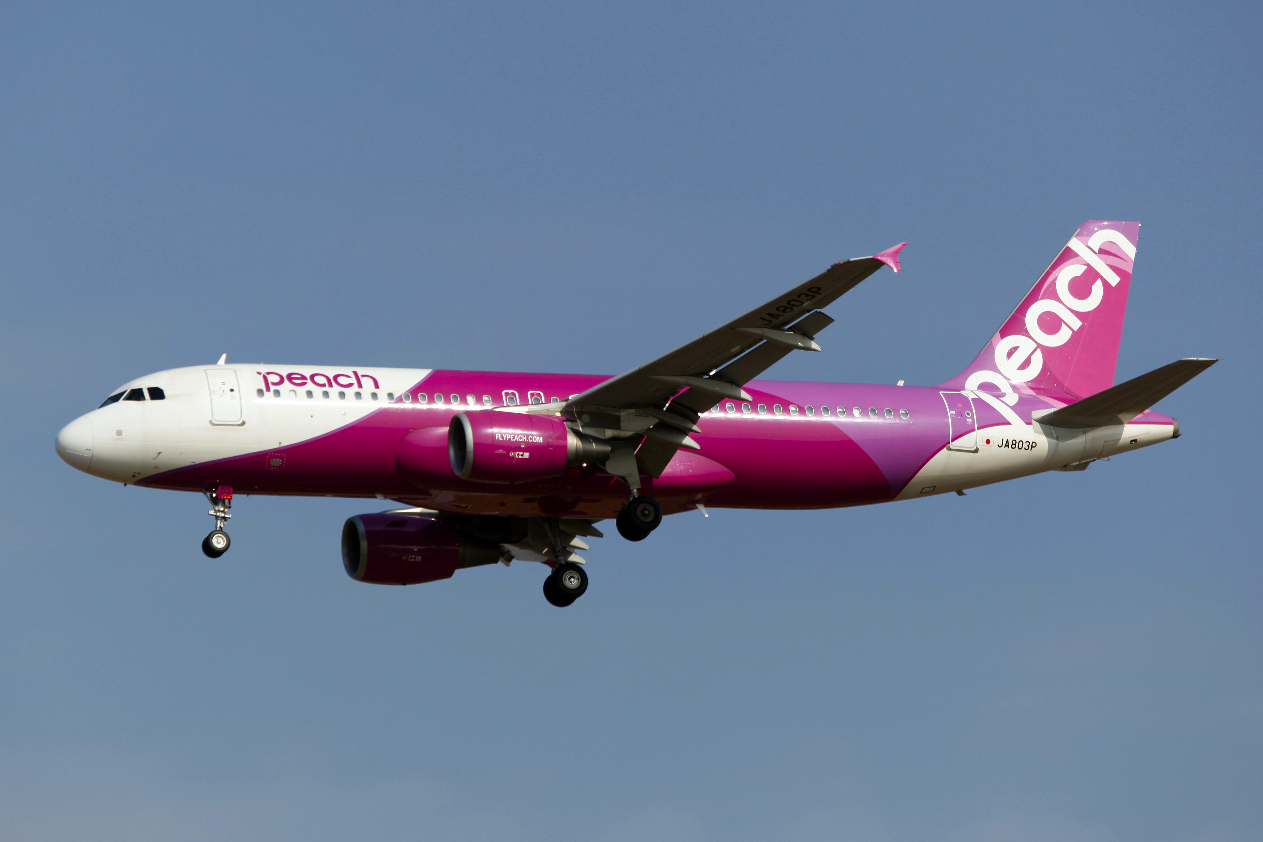 JA803P | Peach | Airbus A320-214 | Seoul Incheon International Airport [ICN]